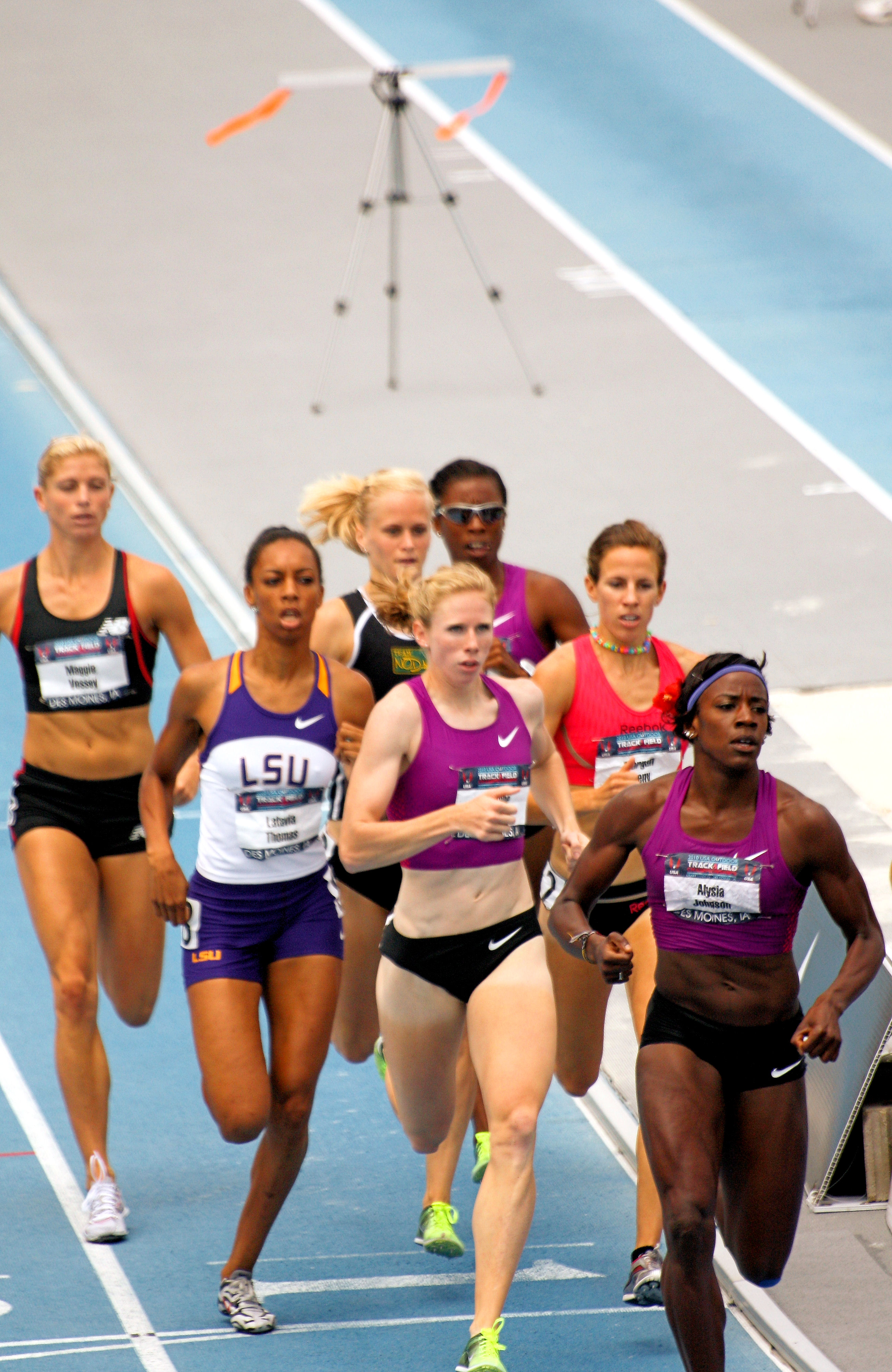 Alysia Johnson leads the pack on her way to winning the women's 800m national title.